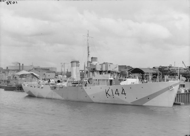 HMS Meadowsweet Alongside at Charles Hill's yard at Bristol on completion.